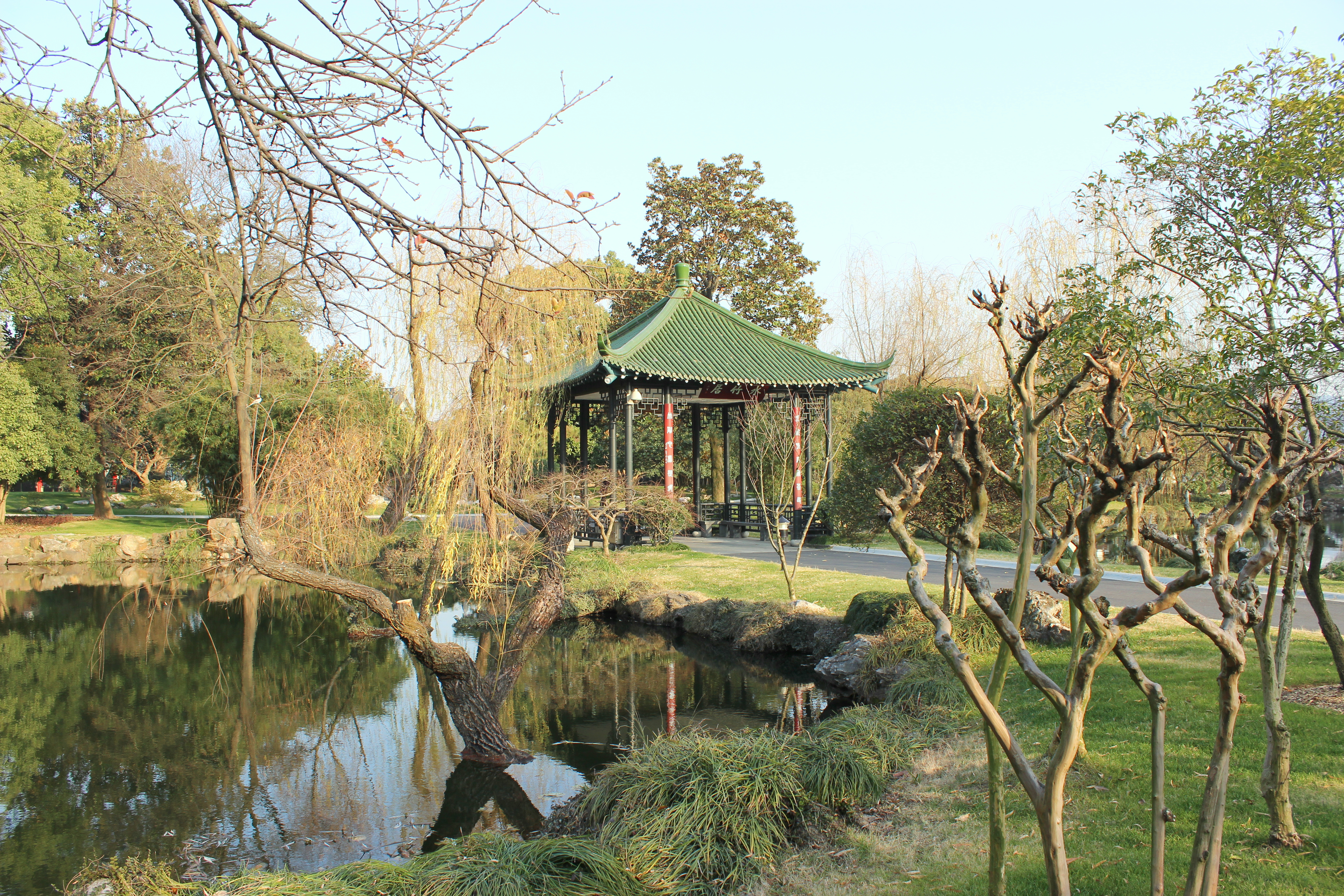 杭州西湖国宾馆， West Lake State House，Hangzhou